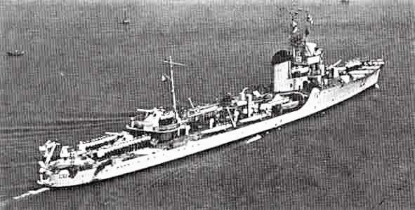 The frigate Lupo (LU) in navigation after Crete battle.